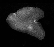 Trichoplax adherens screenshot, from Tree of Life video: Blackstone, N. W. 2009. A new look at some old animals. PLoS Biol 7(1): e1000007